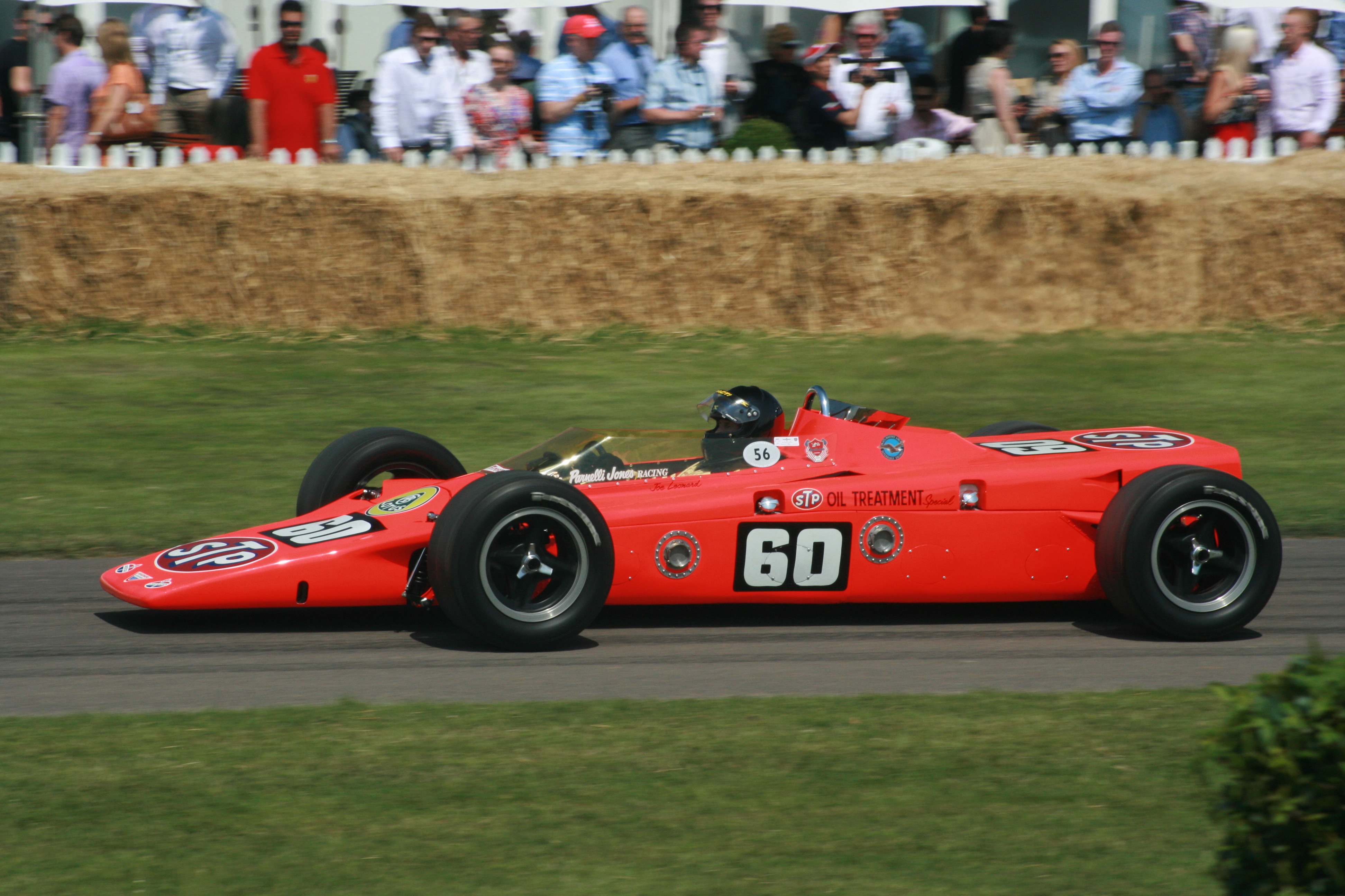 Lotus 56 with a Pratt & Whitney gas turbine engine and four wheel drive. Originally driven in the 1968 Indianapolis 500 by Joe Leonard.